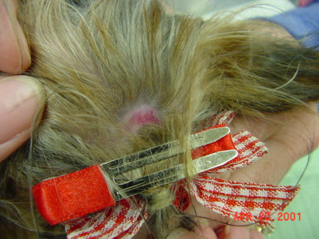 Traction alopecia from top=knot barette on a Yorkie